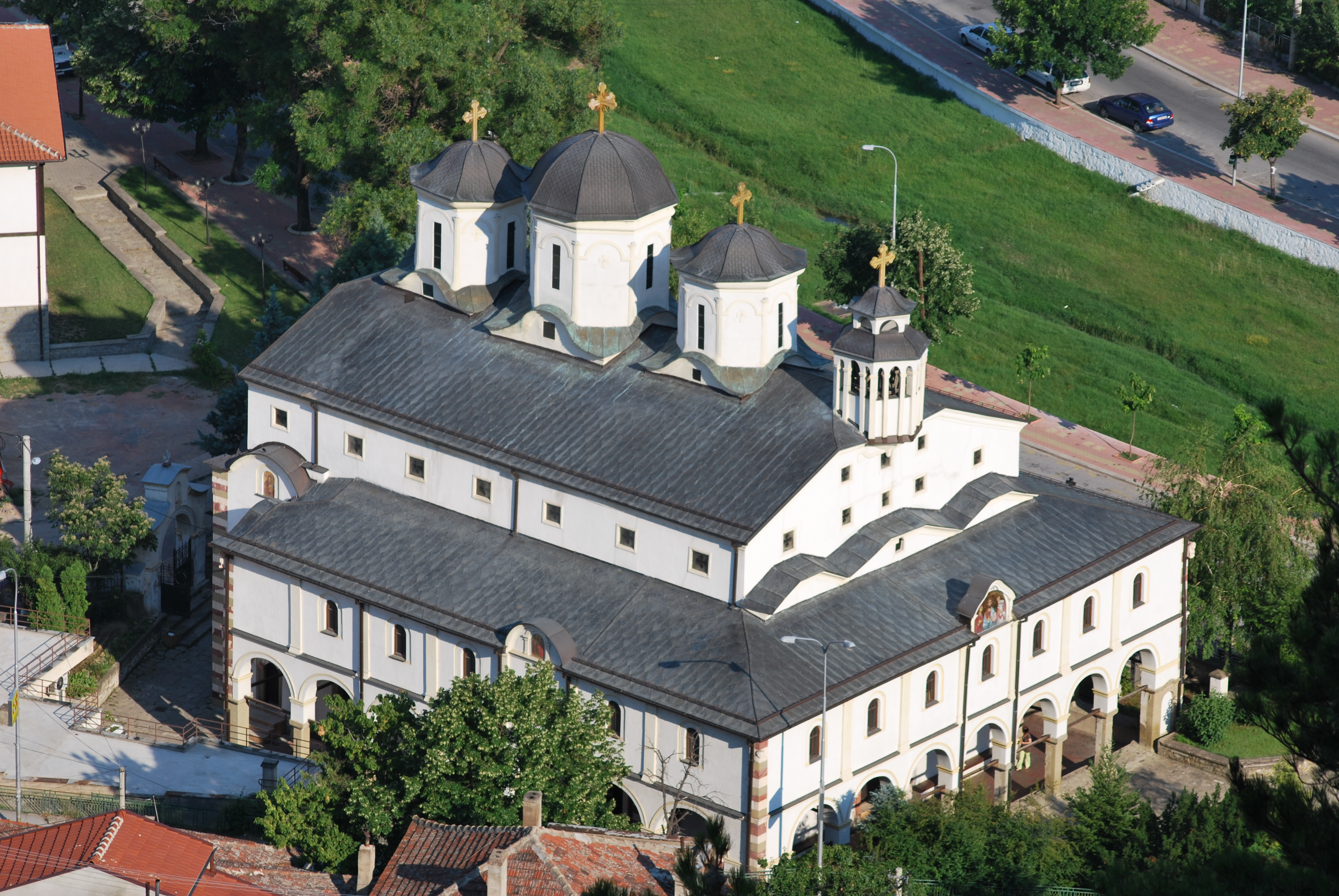 Isar St. Nicholas Church in Štip, Macedonia